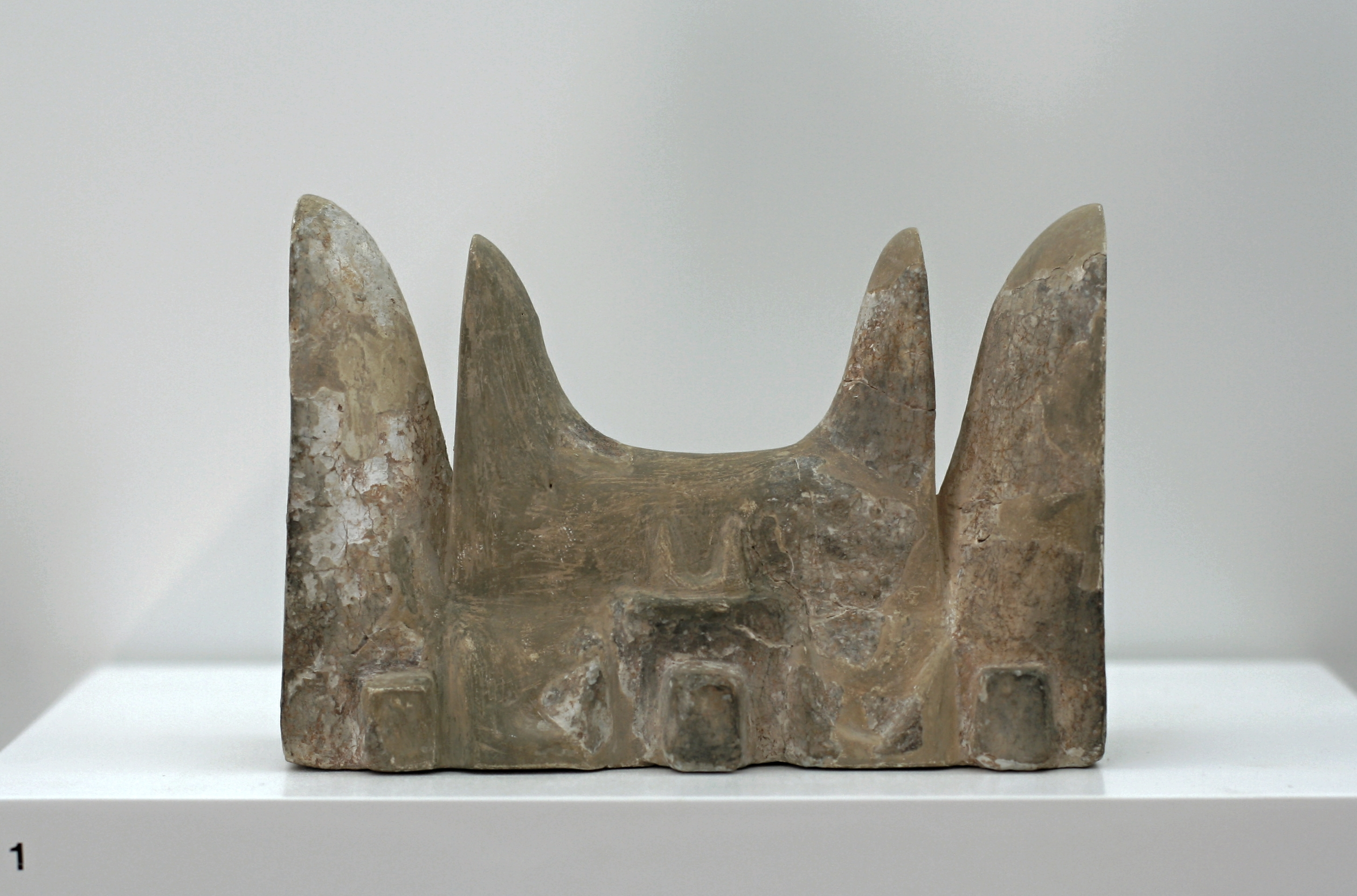 Horns of Consecration, lime plaster. Shrine on top Petsofas on the the most eastern Crete, 2000-1425 BC. Archaeological Museum of Agios Nikolaos.